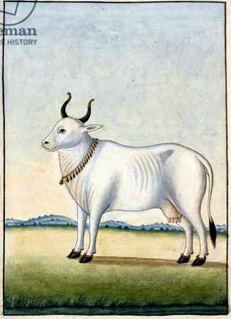 3303909 Kamadhenu, the cow of plenty.Inscribed: \'Cama-d\'henu\'.; British Library, London, UK; ( .: 61 paintings illustrating the Adhyatma Ramayana, vol. 1. [Boddam collection.]Illustrator: Anon1803 - 1804Source/Shelfmark: MSS Eur C116/1 f.190v);© British Library Board. All Rights Reserved; out of copyright.PLEASE NOTE: Bridgeman Images works with the owner of this image to clear permission. If you wish to reproduce this image, please inform us so we can clear permission for you.